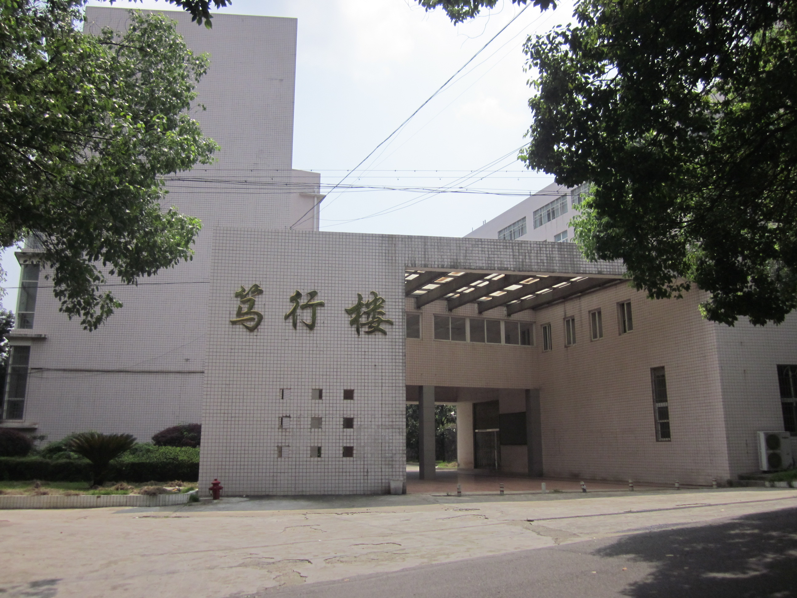 Hunan Women's University (simplified